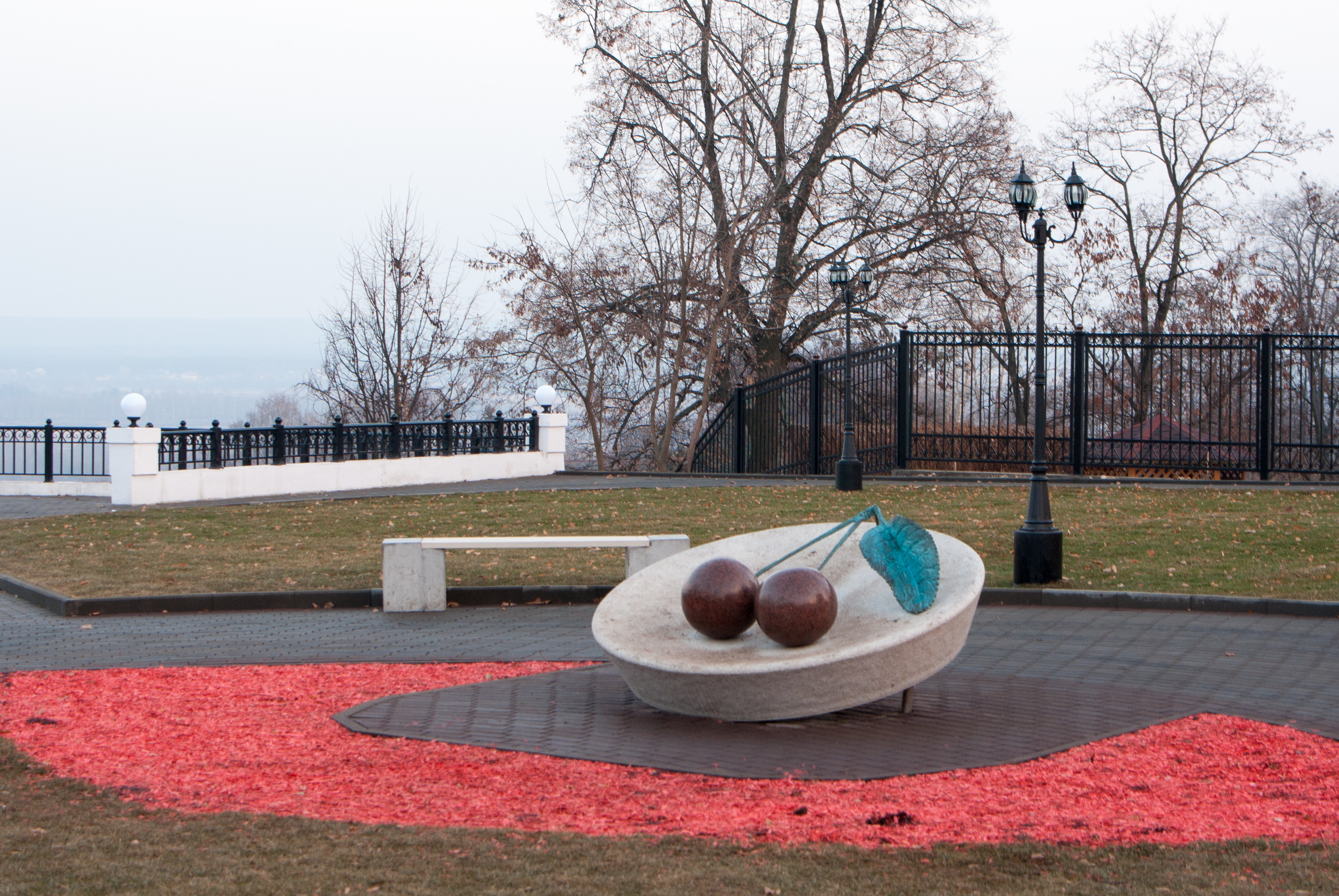 The monument to the Vladimir cherry on Saviour hill. Established in memory of cherry orchards that once grew abundantly in Vladimir.